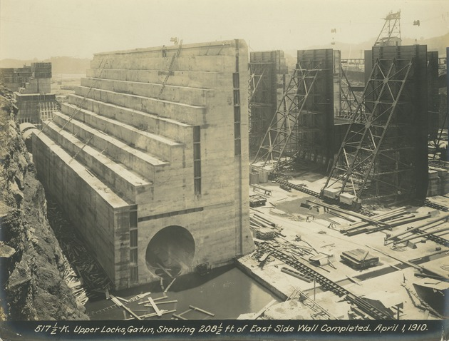 517 1/2 - K. Upper Locks, Gatun, Showing 208 1/2 ft. of East Side Wall Completed. April 1, 1910.